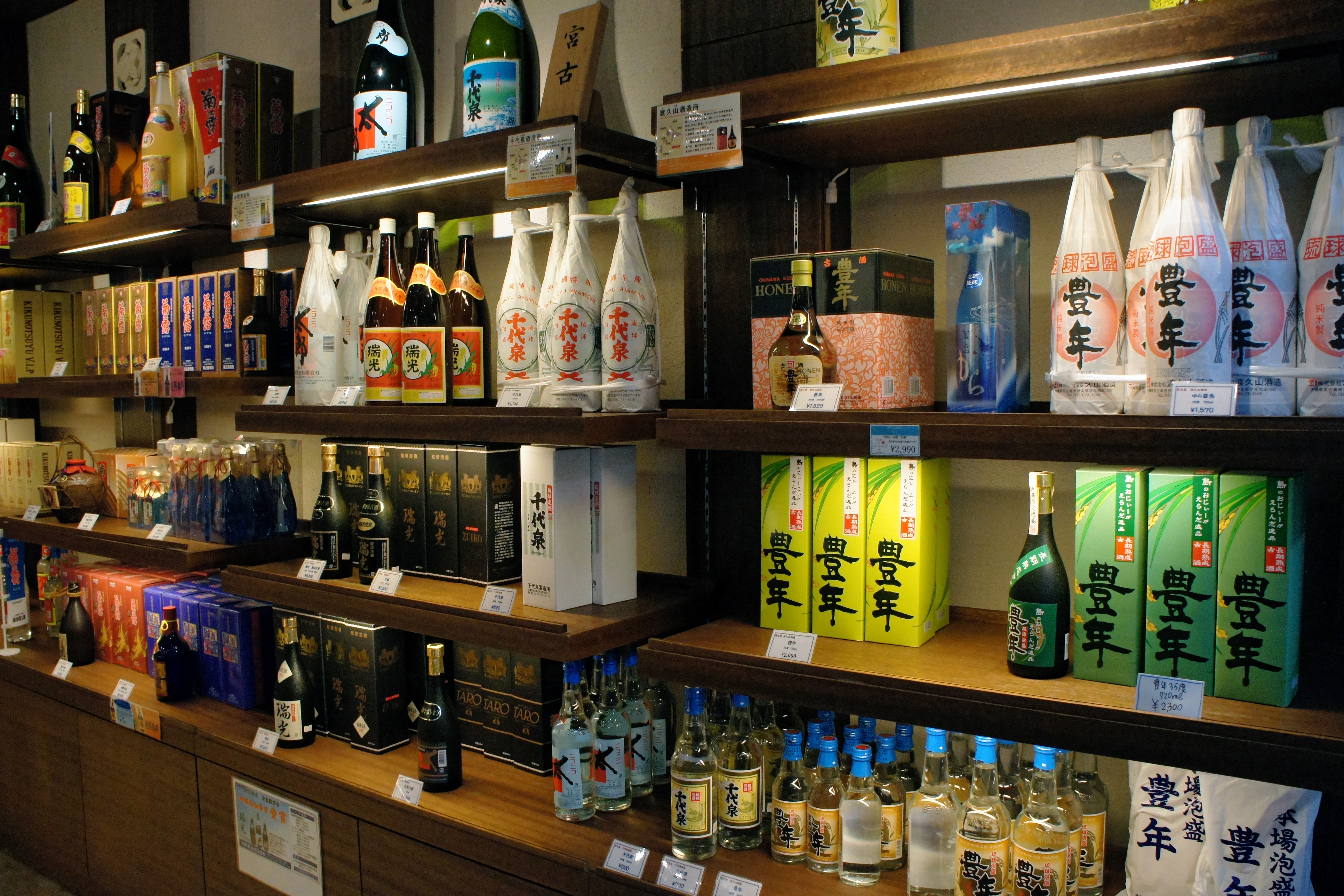 Awamori, at Miyakojima, Okinawa prefecture, Japan